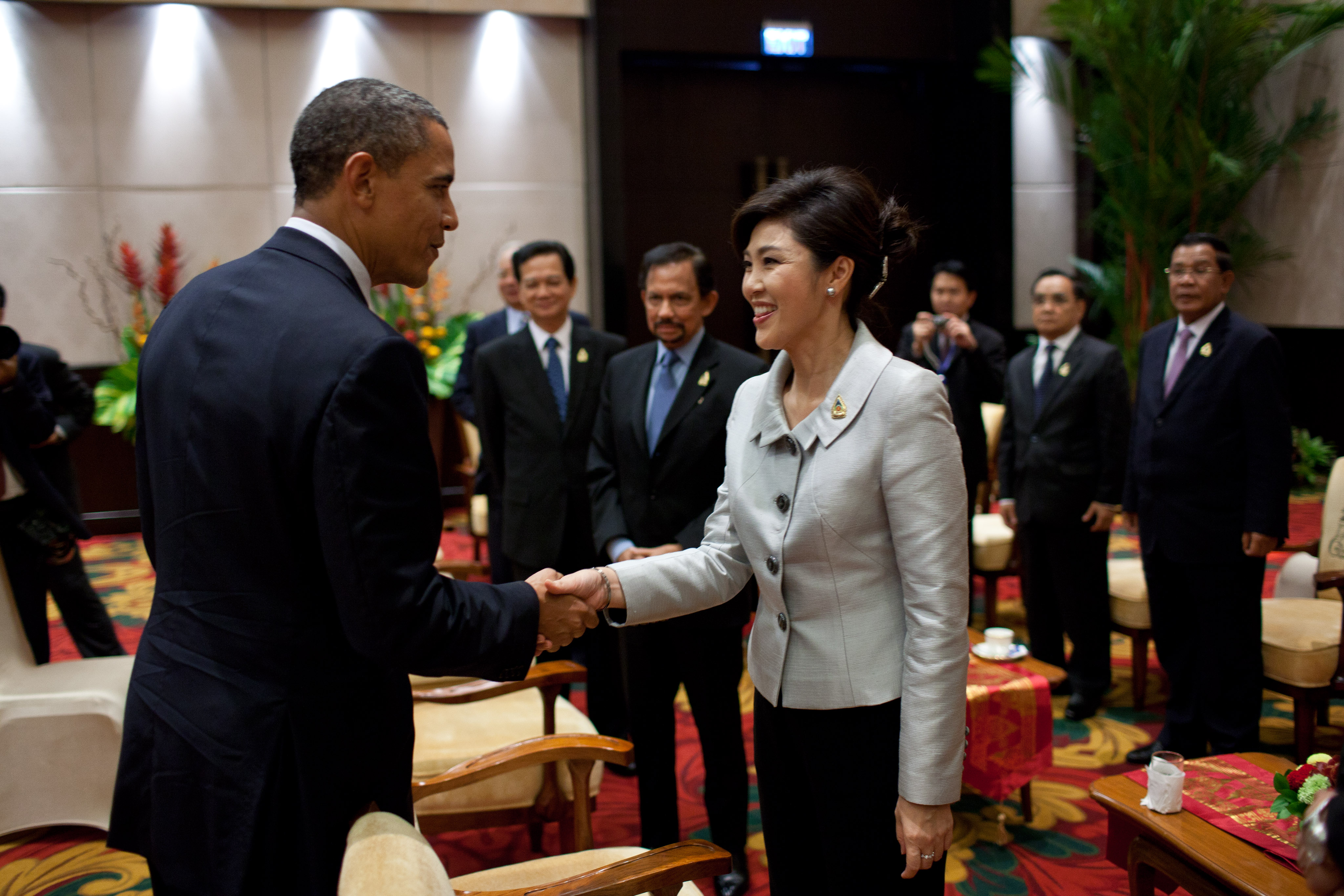 United States President Barack Obama greets Prime Minister Yingluck Shinawatra of Thailand during the ASEAN Summit in Nusa Dua, Bali, Indonesia on 18 November 2011 during the first participation by a U.S. president in an East Asia Summit.